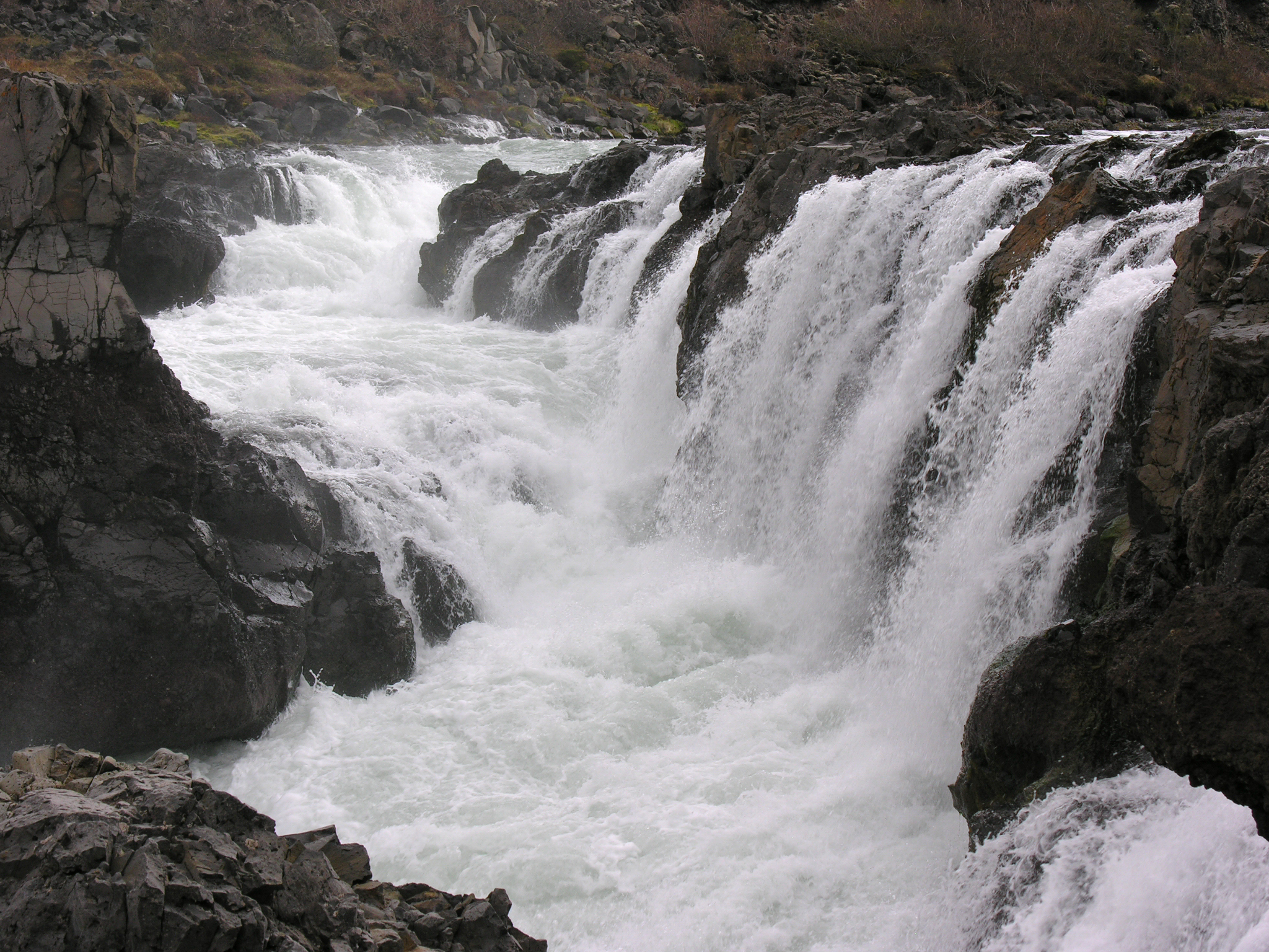 Iceland, Barnafoss